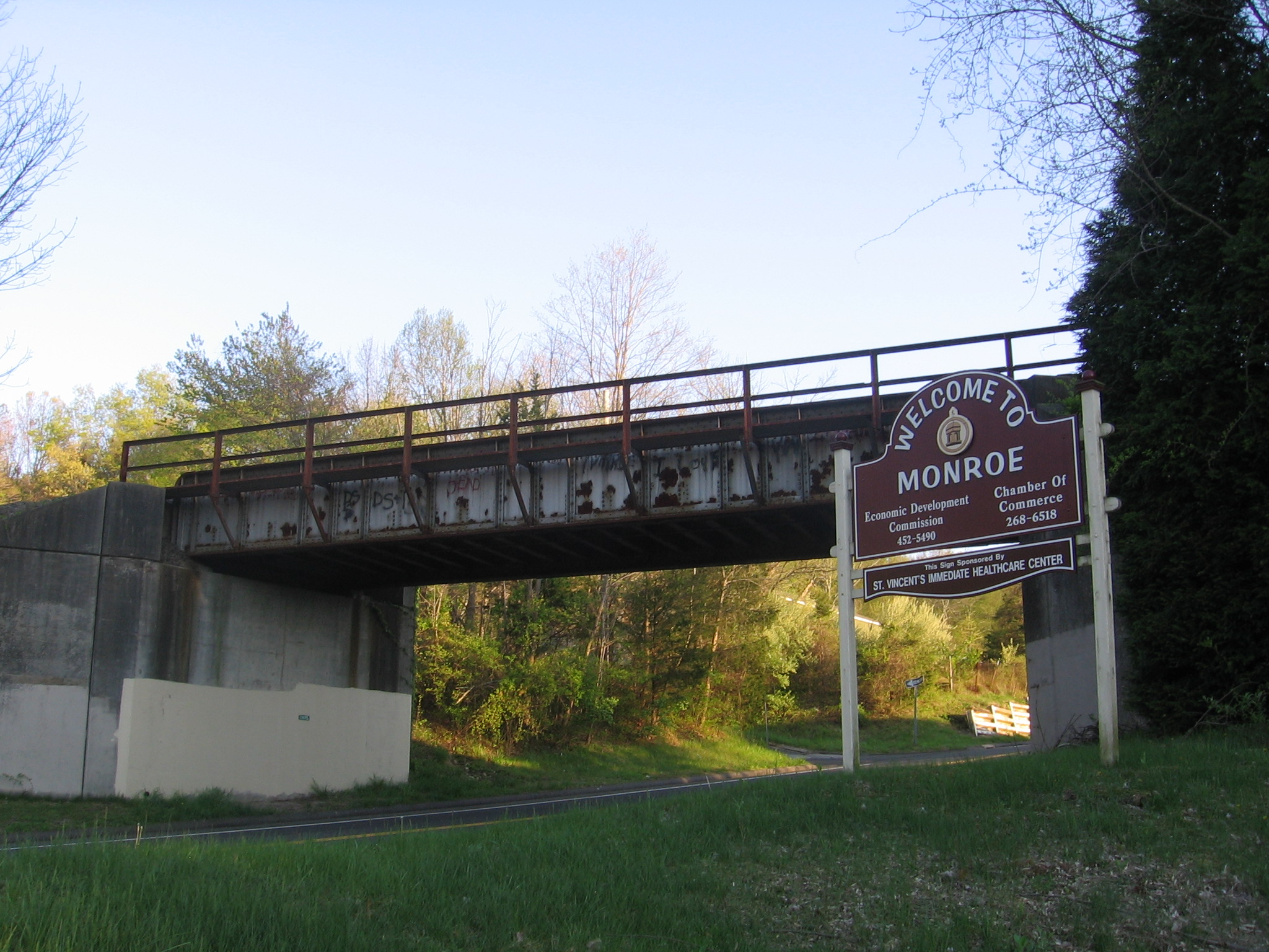 Sign for town of Monroe on the Monroe Turnpike (Connecticut Route 111) in the Stevenson section of Monroe (above Lake Zoar). The Housatonic Railroad's Derby Extension was turned into the Maybrook line by the NYNH&H, but the (new) Housy now owns the line. View looking south.